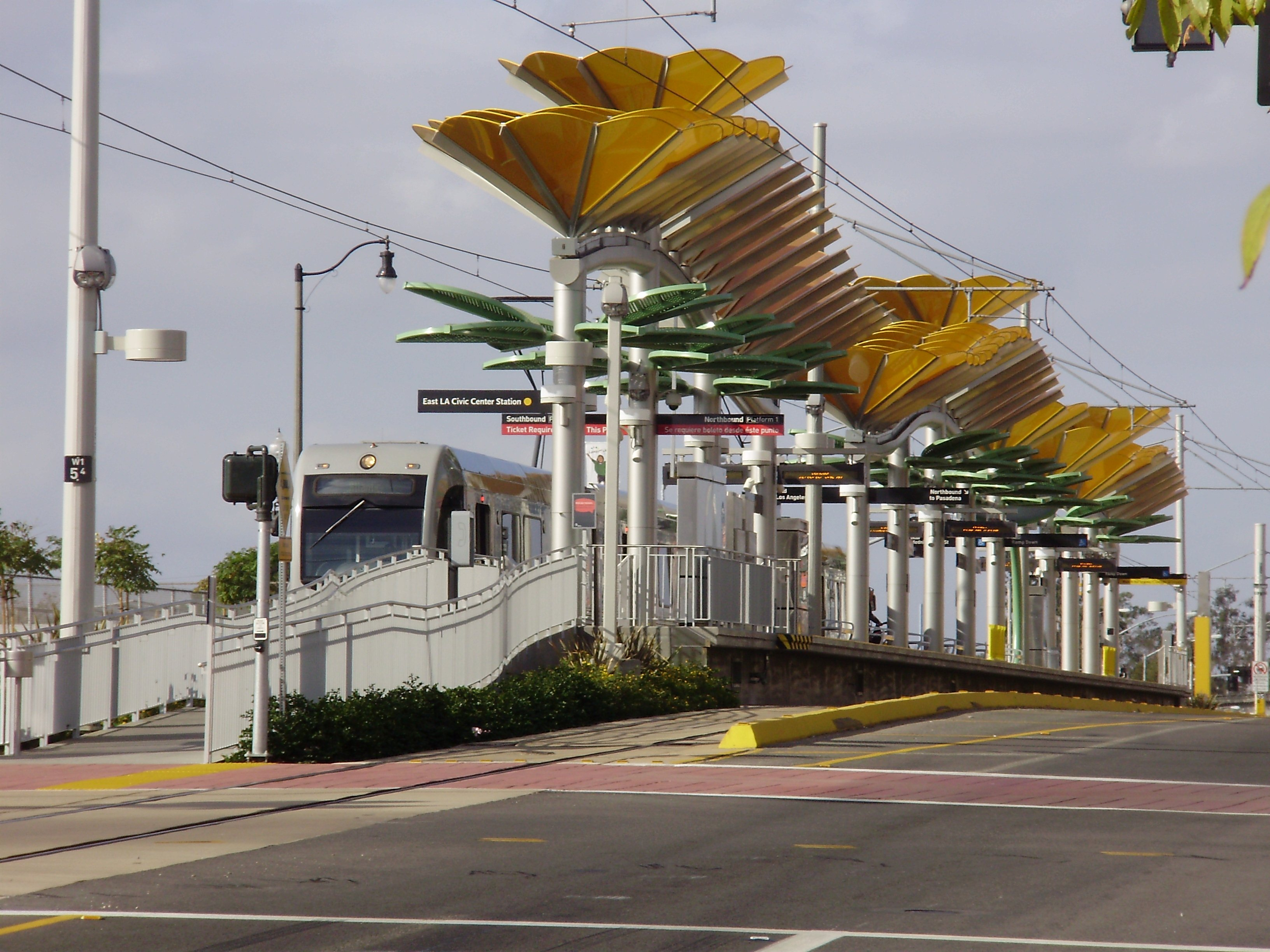 A southbound train prepares to depart East LA Civic Center Station on the Metro Gold Line in East Los Angeles, California, USA.